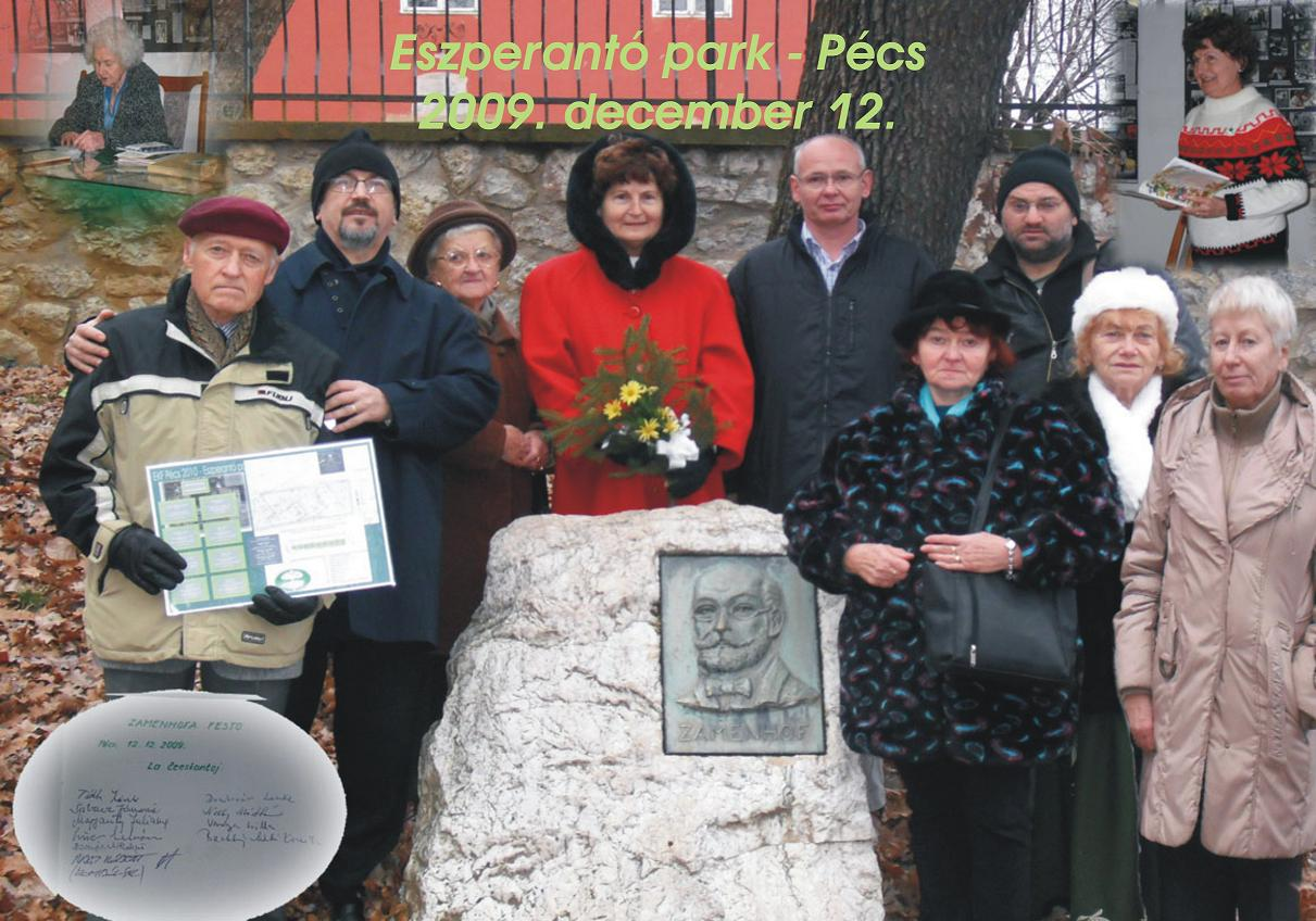 Zamenhof Day (Pécs)